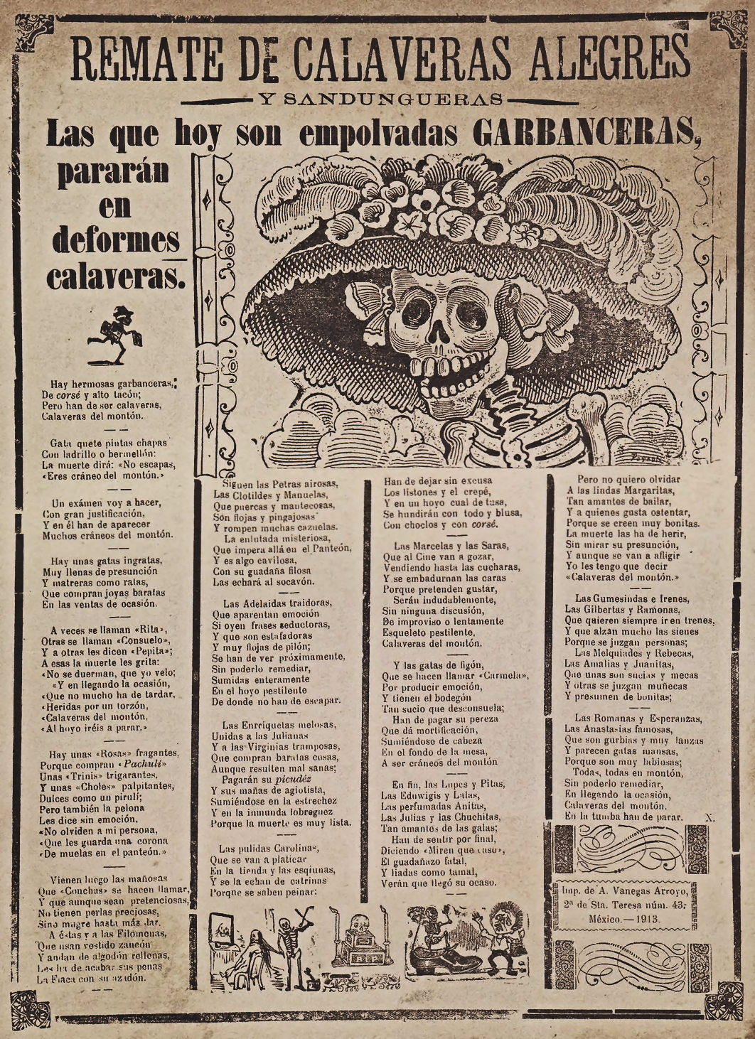 (This image was created by the Mexican engraver José Guadalupe Posada, 1852-1913, and is in the public domain since the author died more than 70 years ago. Tag: This work is in the public domain in its country of origin and other countries and areas where the copyright term is the author's life plus 70 years or fewer. You must also include a United States public domain tag to indicate why this work is in the public domain in the United States. Note that a few countries have copyright terms longer than 70 years: Mexico has 100 years, Jamaica has 95 years, Colombia has 80 years, and Guatemala and Samoa have 75 years. This image may not be in the public domain in these countries, which moreover do not implement the rule of the shorter term. Côte d'Ivoire has a general copyright term of 99 years and Honduras has 75 years, but they do implement the rule of the shorter term. Copyright may extend on works created by French who died for France in World War II (more information), Russians who served in the Eastern Front of World War II (known as the Great Patriotic War in Russia) and posthumously rehabilitated victims of Soviet repressions (more information). This file has been identified as being free of known restrictions under copyright law, including all related and neighboring rights. )